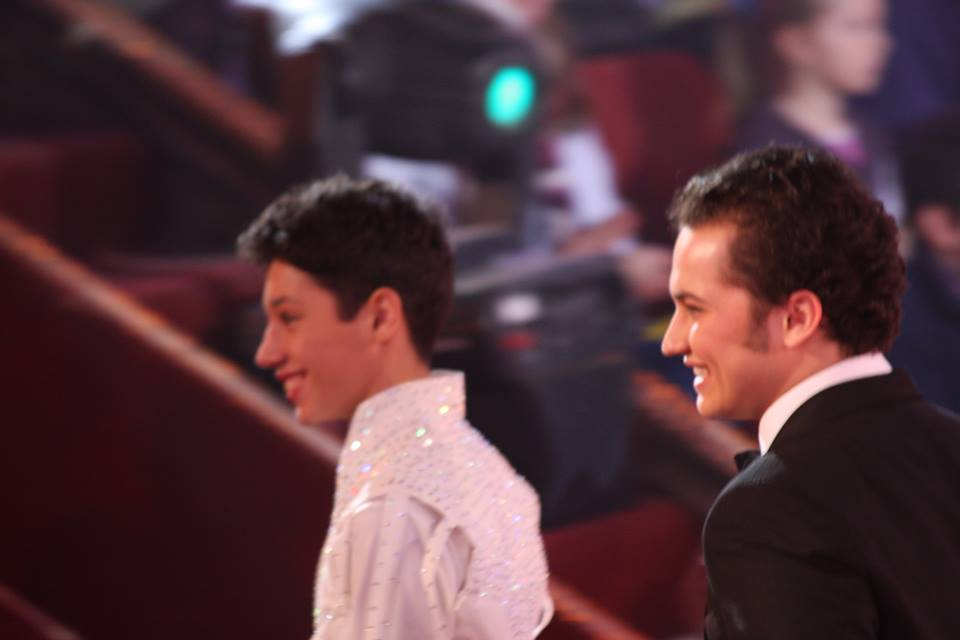 René Casselly Jr. and David Sosman in 10th International Circus Festival of Budapest.